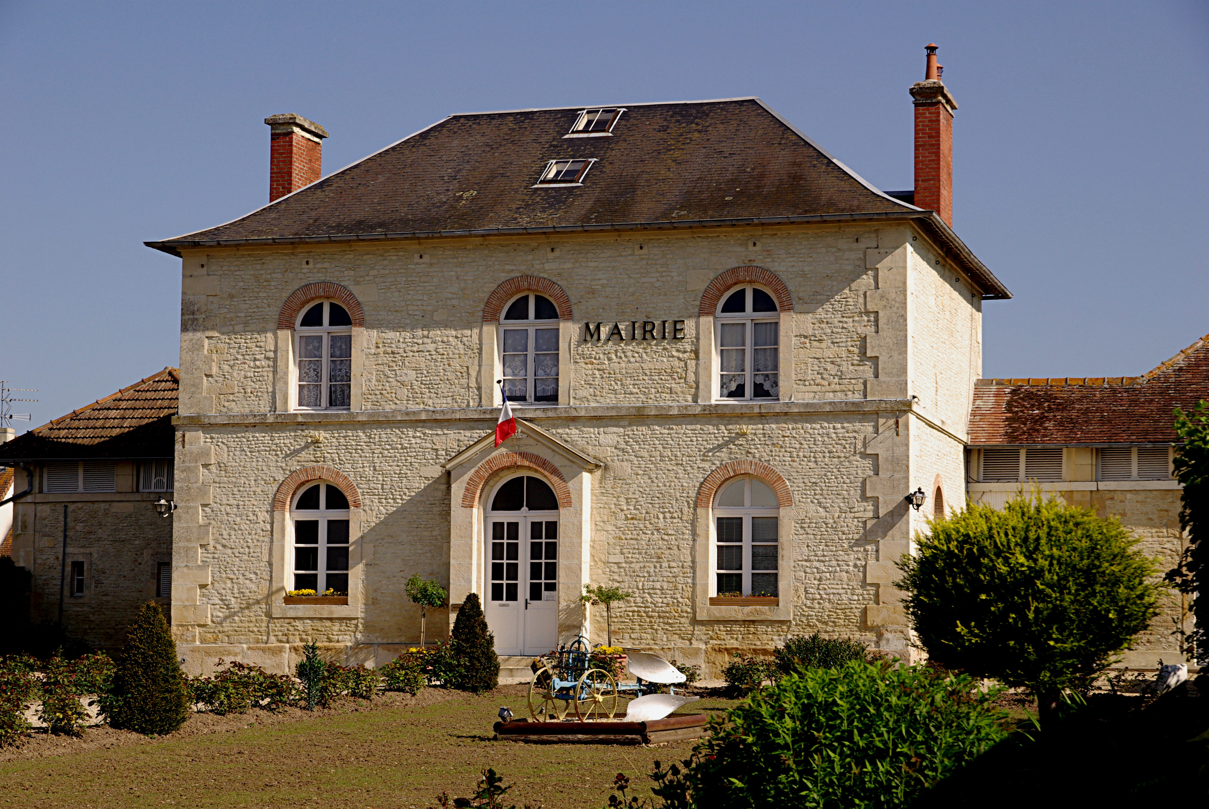 The town hall of petiville Calvados 14 France